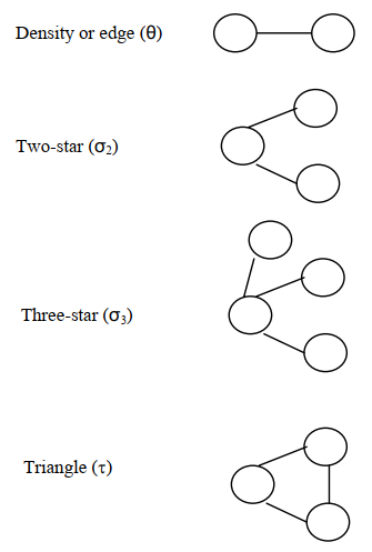 چند نمونه از ویژگی‌های گراف تصادفی نمایی